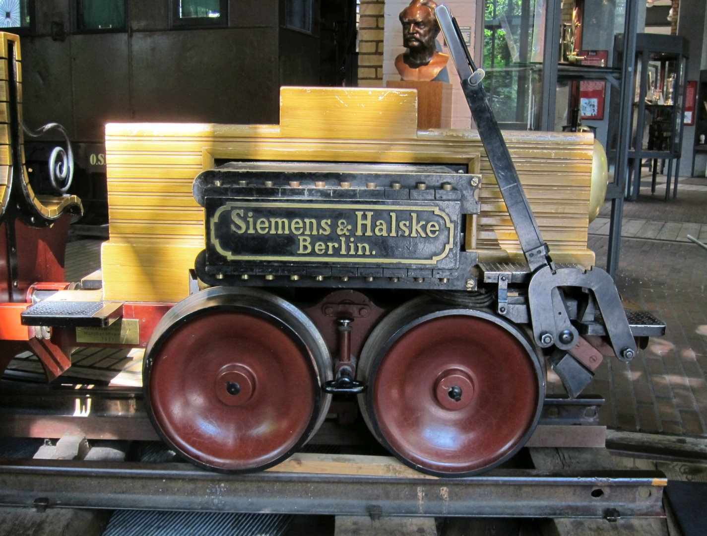 The locomotive of the Werner von Siemens' experimental passenger train used in Berlin 1879. In June 1878 Werner von Siemens drafted an electric locomotive with a gauge of 520 mm (1ft 8in). She was scheduled for an underground brown coal mine near Senftenberg, but the mine owner refused to accept her. Siemens seized this opportunity and presented the rejected locomotive as tractor for an experimental passenger train at Berlin Trades Exposition 1879. More than 90,000 passengers were transported and thus the locomotive proved to be reliable.Displayed in Deutsches Technikmuseum, Berlin. A replica of the original built in 1981. Werner von Siemens's bust in the background.